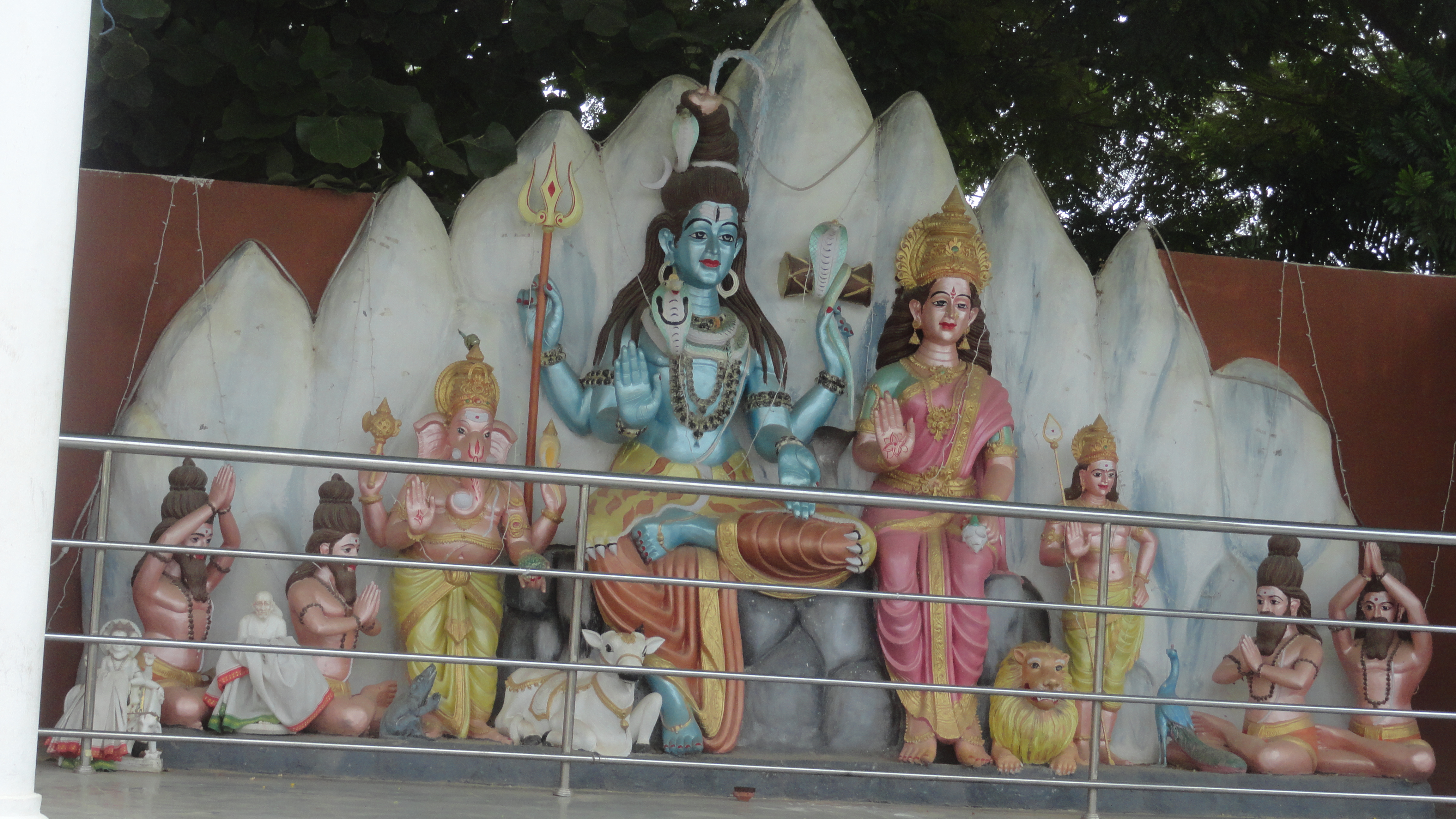 Guntur